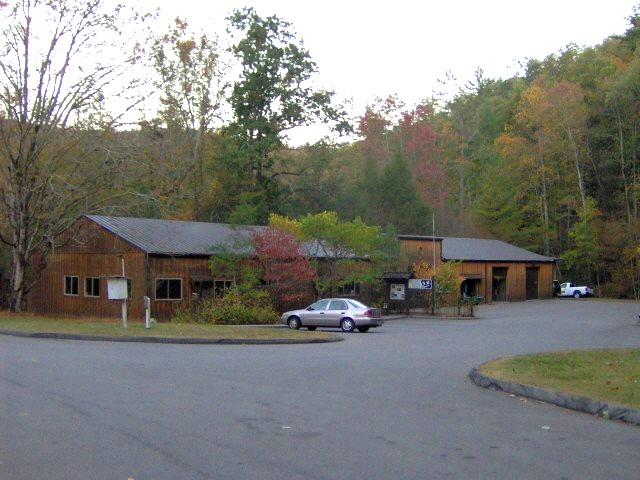 The Visitor Center at the Great Smoky Mountains Institute at Tremont in the Great Smoky Mountains of East Tennessee, located in the Southeastern United States. The Institute was established as the Tremont Environmental Education Center in 1969 by Maryville College and renamed the Great Smoky Mountains Institute at Tremont in 1985, after the Great Smoky Mountains Natural History Association assumed oversight.